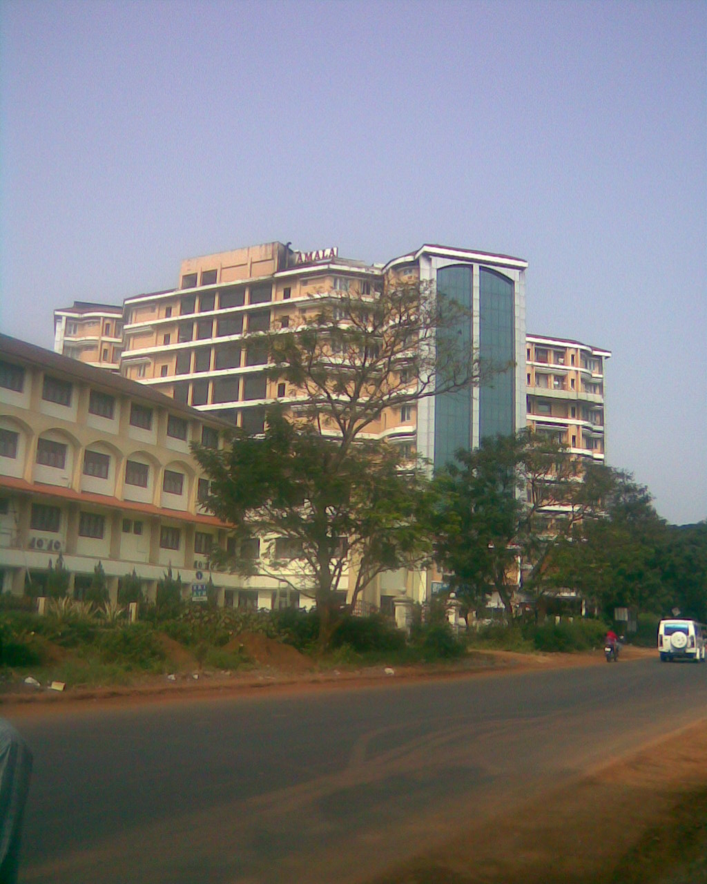 This media file is uploaded with Malayalam loves Wikimedia event - 2.